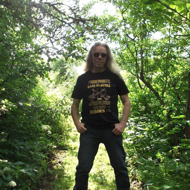 Colin Tench, among the trees near his house in Sweden.